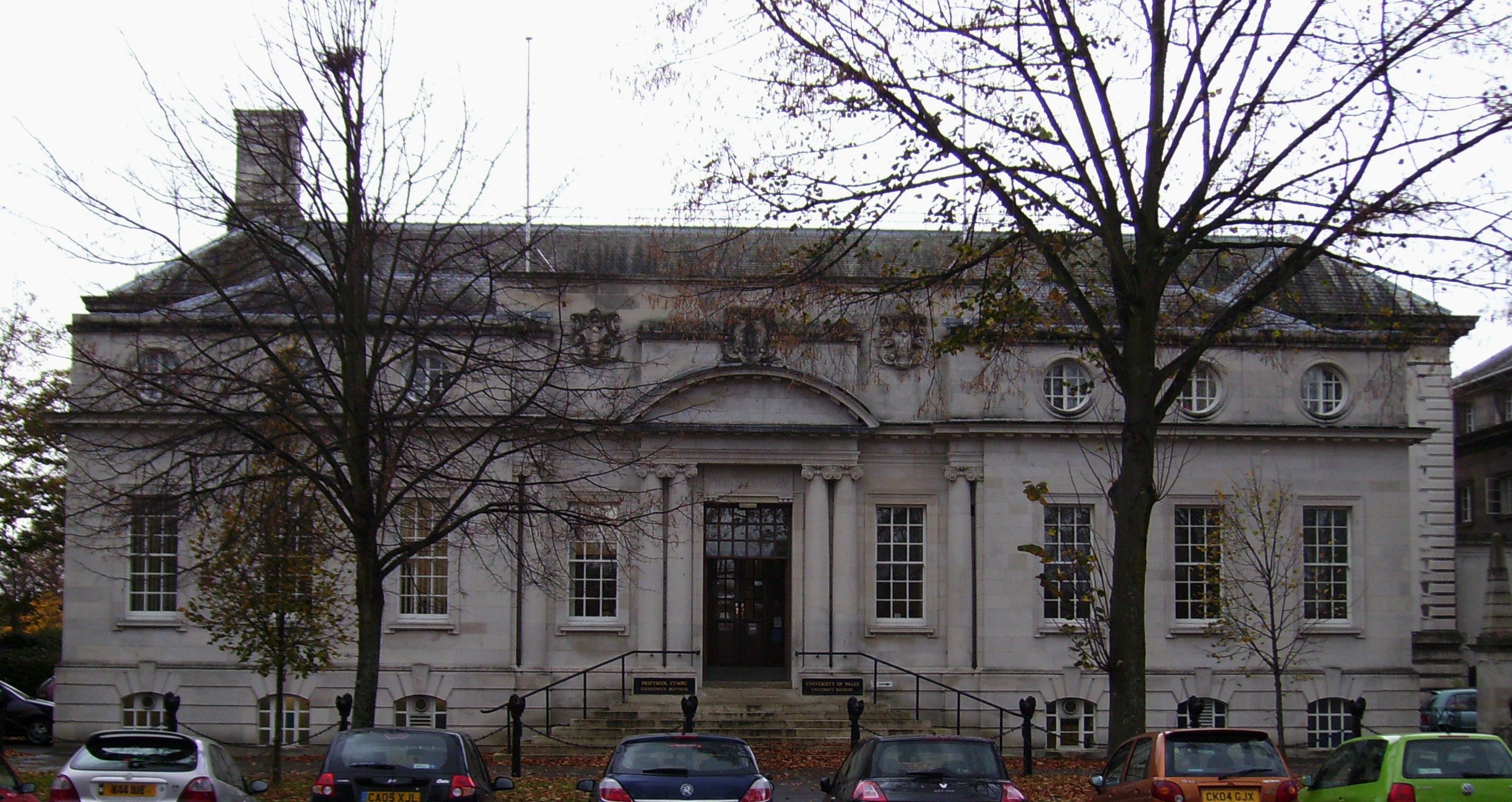 University of Wales Registry, Cathays Park, Cardiff, Wales